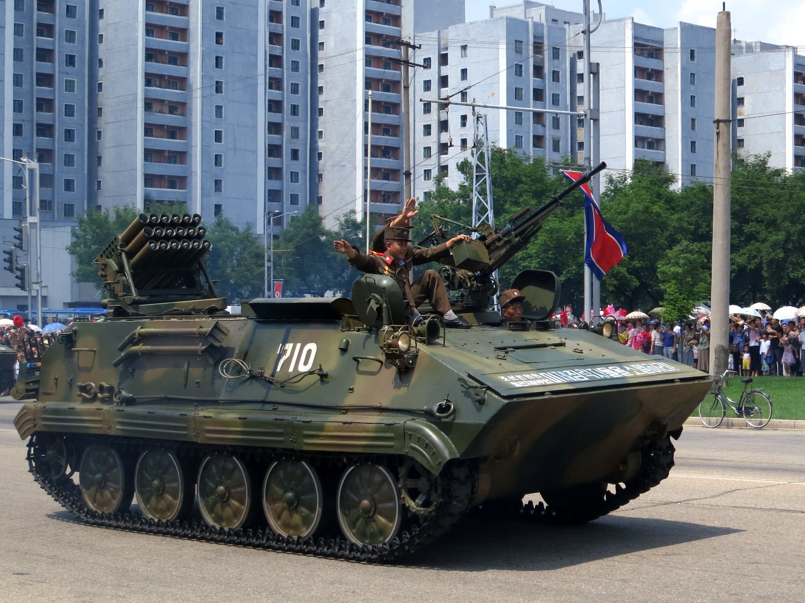 VTT-323 Sinhŭng - North Korea Victory Day-2013